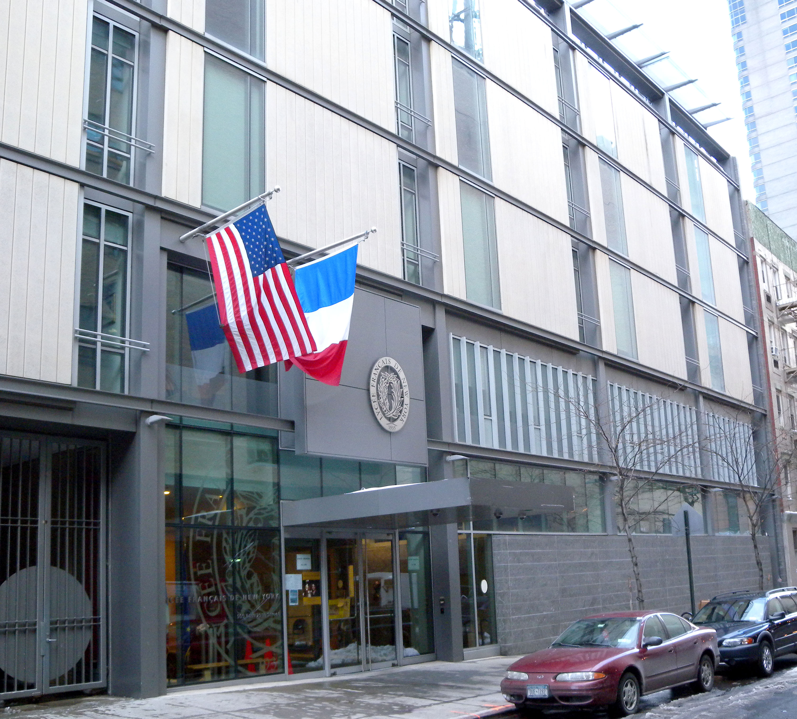 Looking east at Lycée français de New York on a cloudy afternoon.